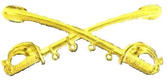 United States Crossed Cavalry Sabers, paint shop modified from hand drawn color sketch.